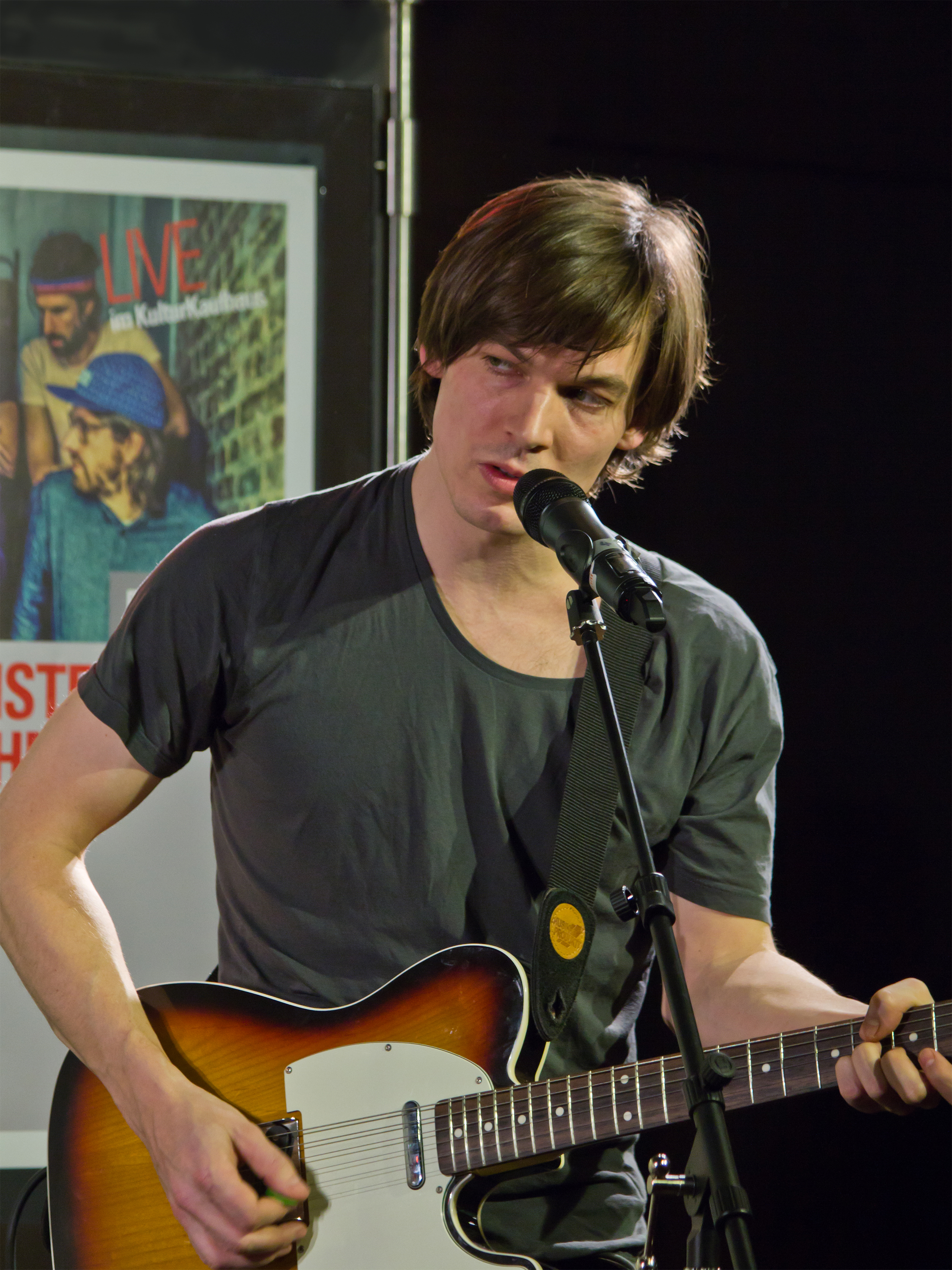 Indie band «Die Höchste Eisenbahn» from Berlin, Germany. This picture shows Moritz Krämer.